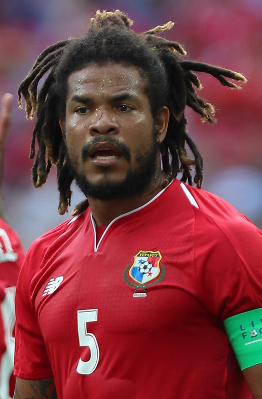 Panamanian footballer Román Torres on 24 June 2018, during the 2018 FIFA World Cup group stage match between England and Panama.